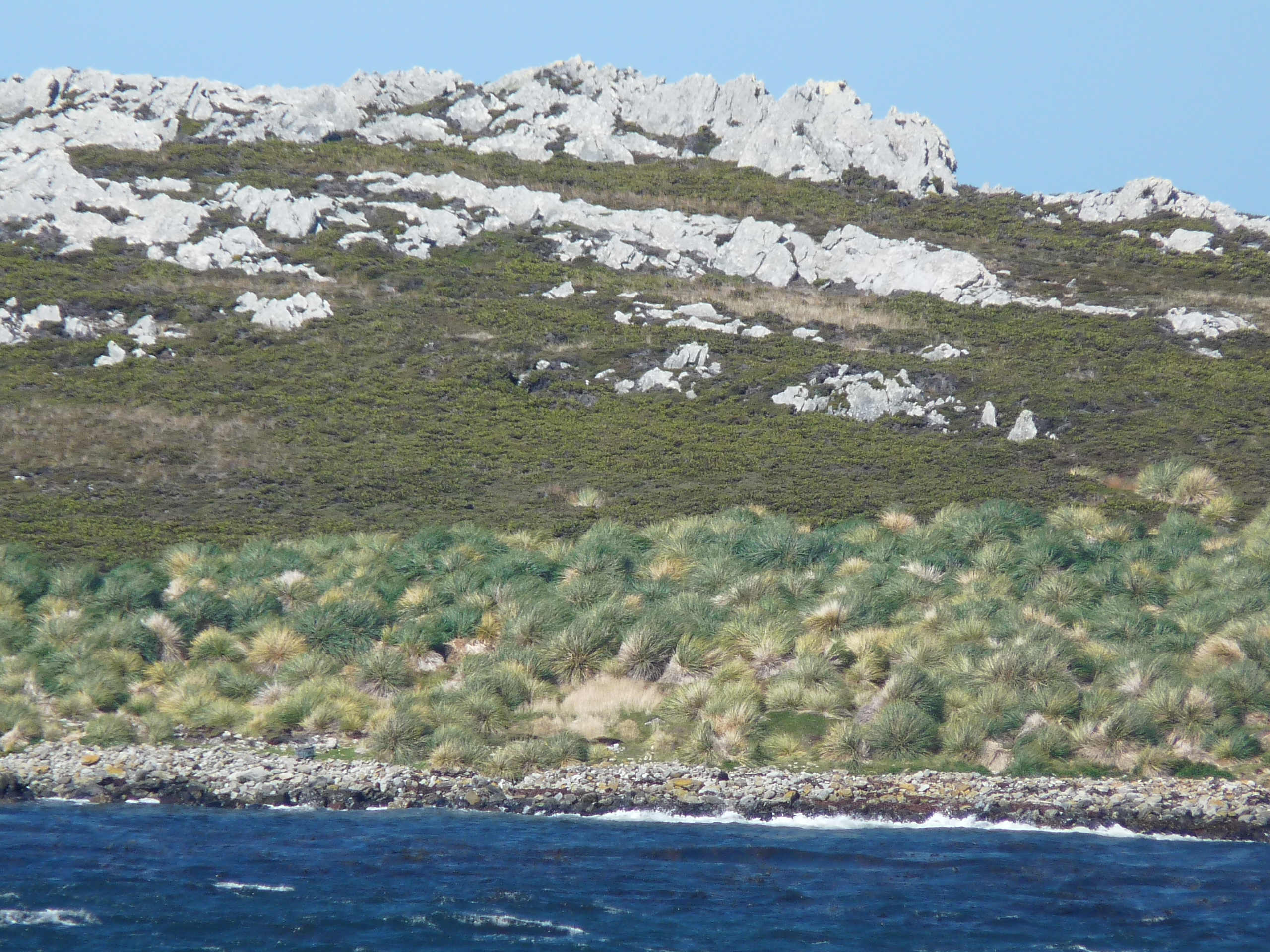 Tussac Grass (Poa flabellata) near Stanley, Falkland Islands.